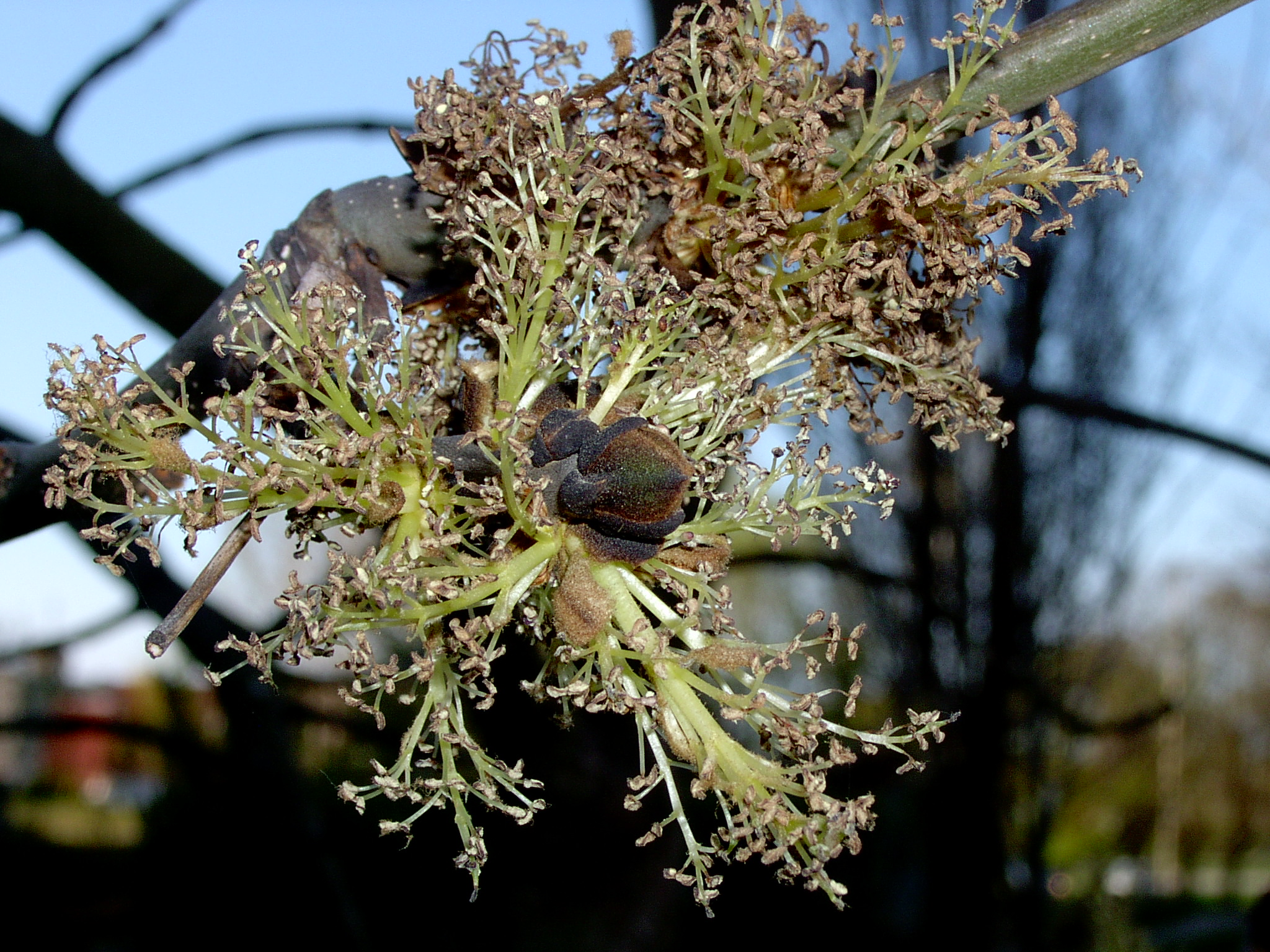 Inflorescence of Fraxinus pennsylvanica. Szczecin, NW Poland